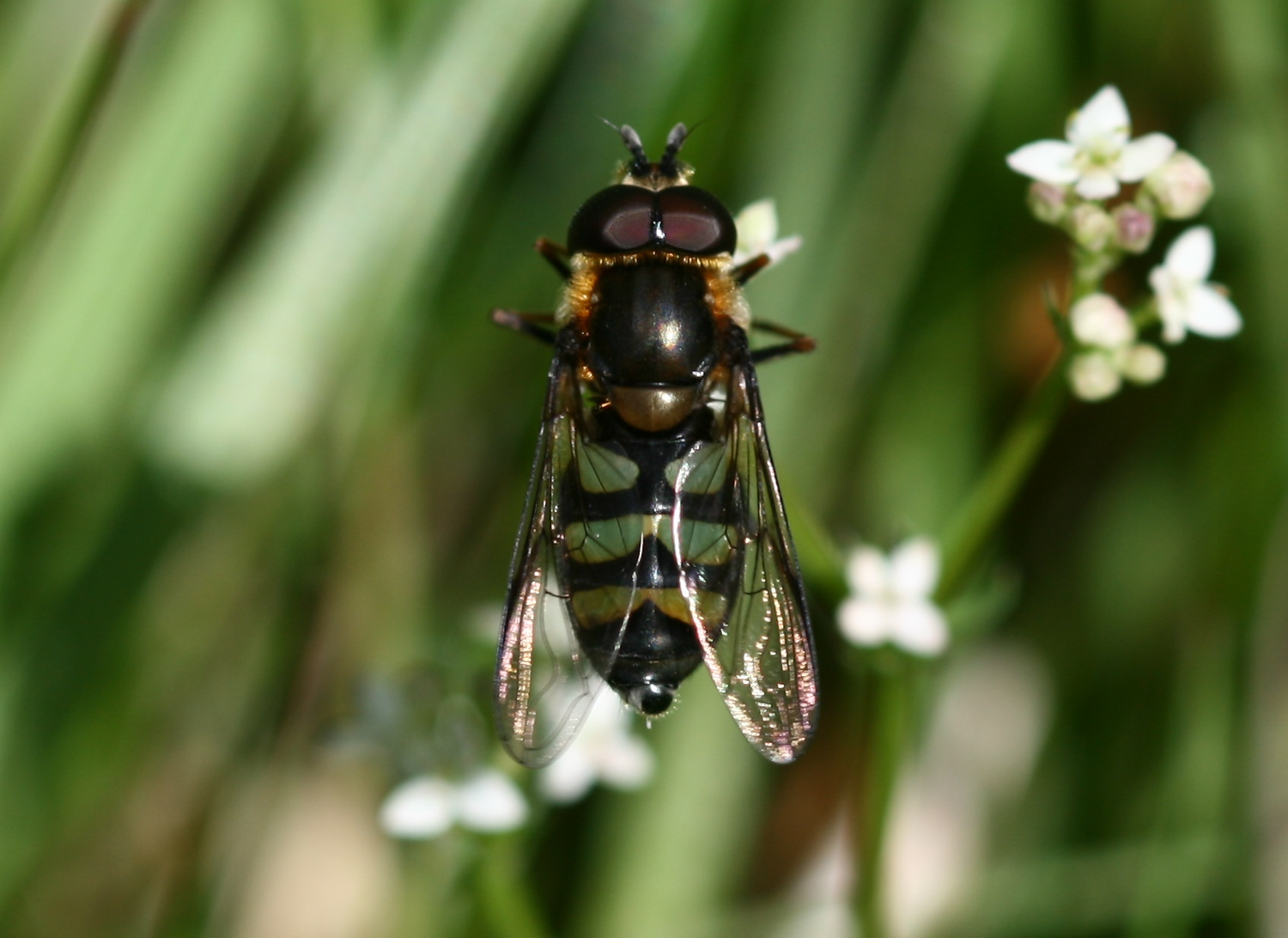 Didea fasciata (male) turquoise variety. Monynut Forest, Berwickshire, Scotland.